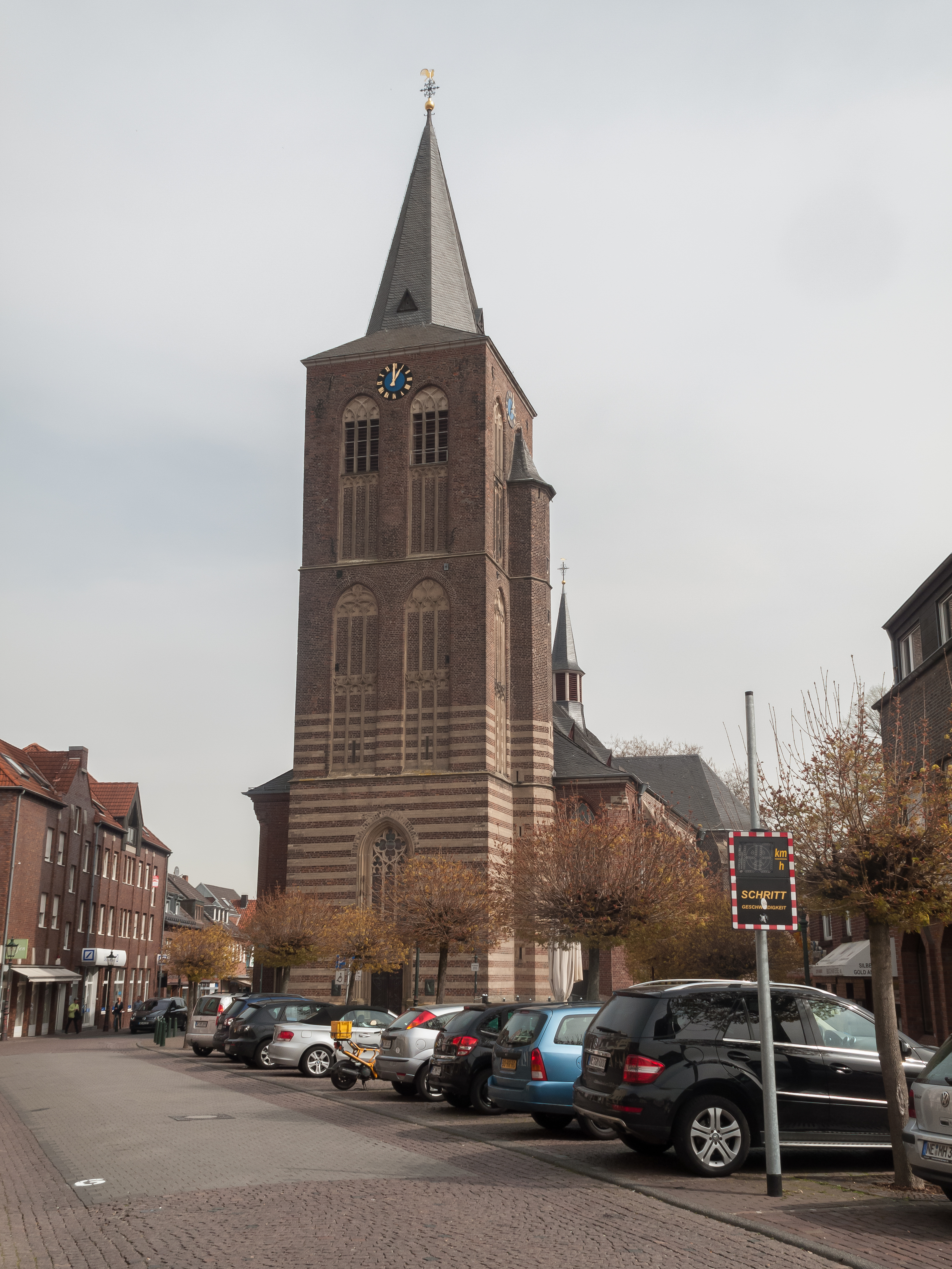 Korschenbroich, church: katholische Pfarrkirche Sankt Andreas This is a photograph of an architectural monument.